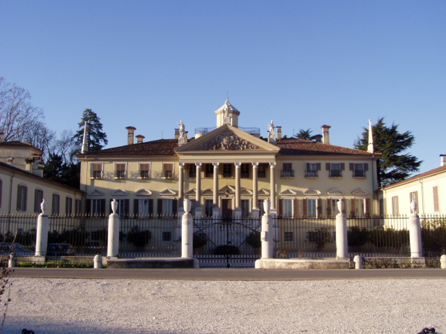 Villa Mazzucchelli - Ciliverghe (BS) - Italy